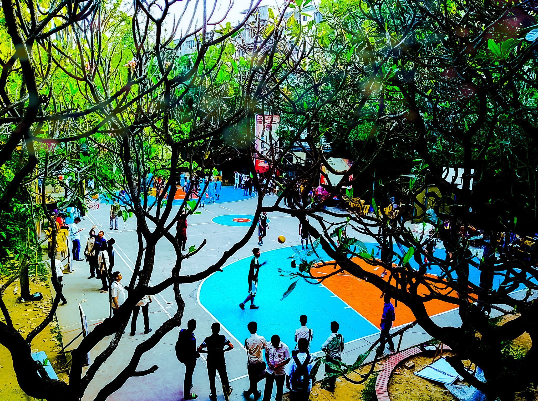 Notre Dame College Basketball ground